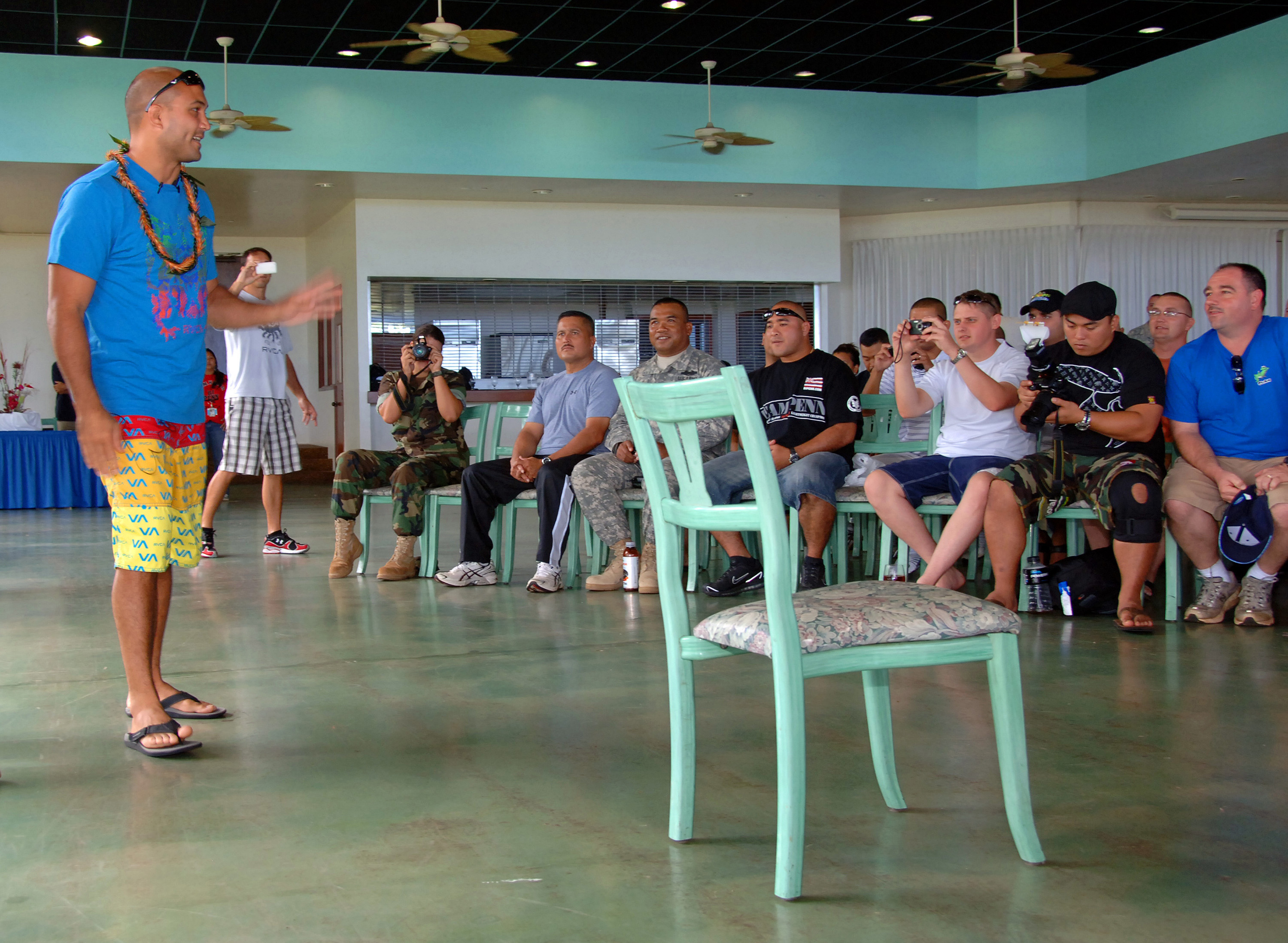 Hawaii servicemembers who have been wounded in battle "talk story" with Mixed Martial Arts Ultimate Fighting Champion B.J. Penn at the Officers Club lanai, Sept. 18.